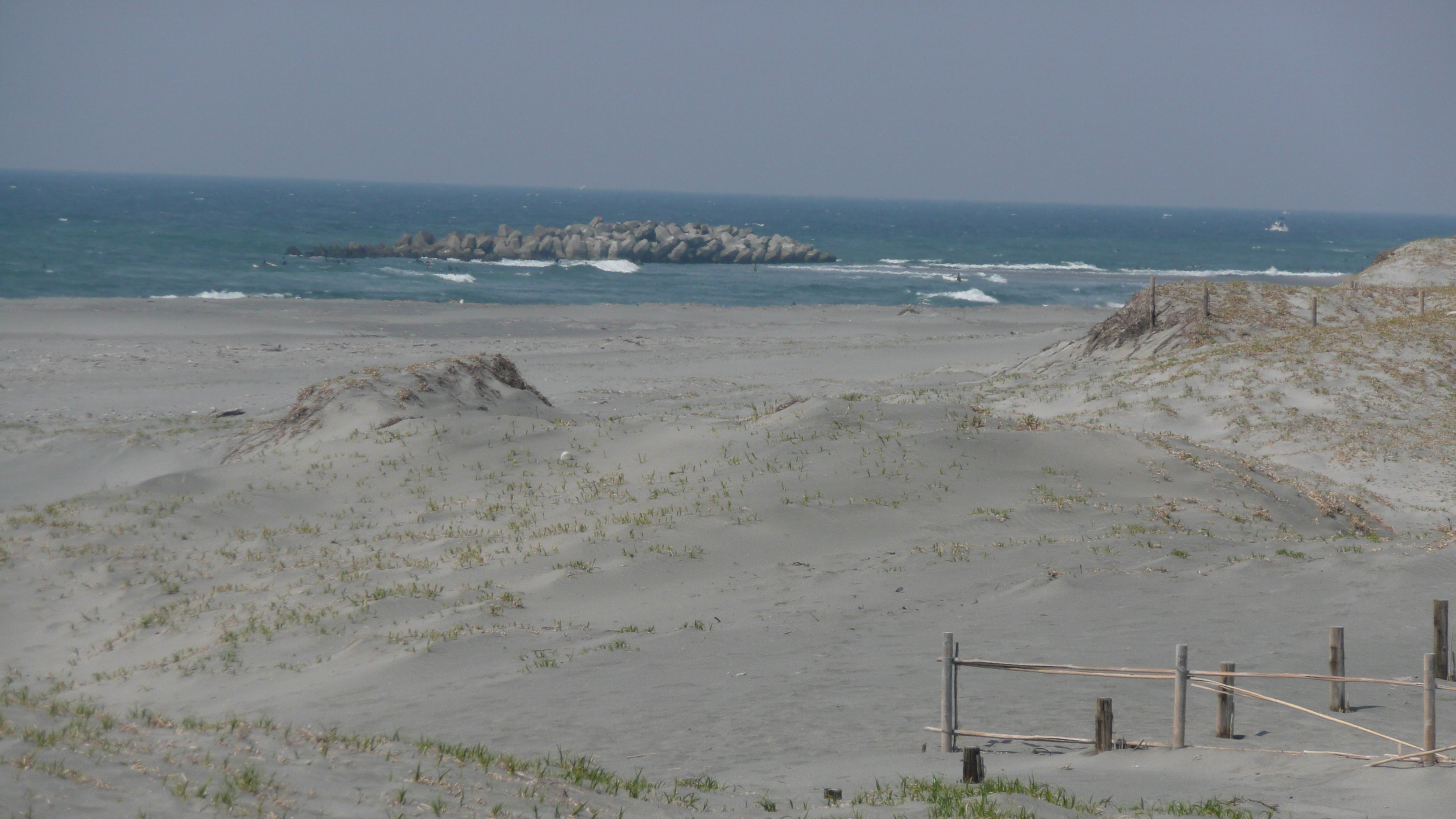 Nakatajima Sand Dunes, Hamamatsu, Japan